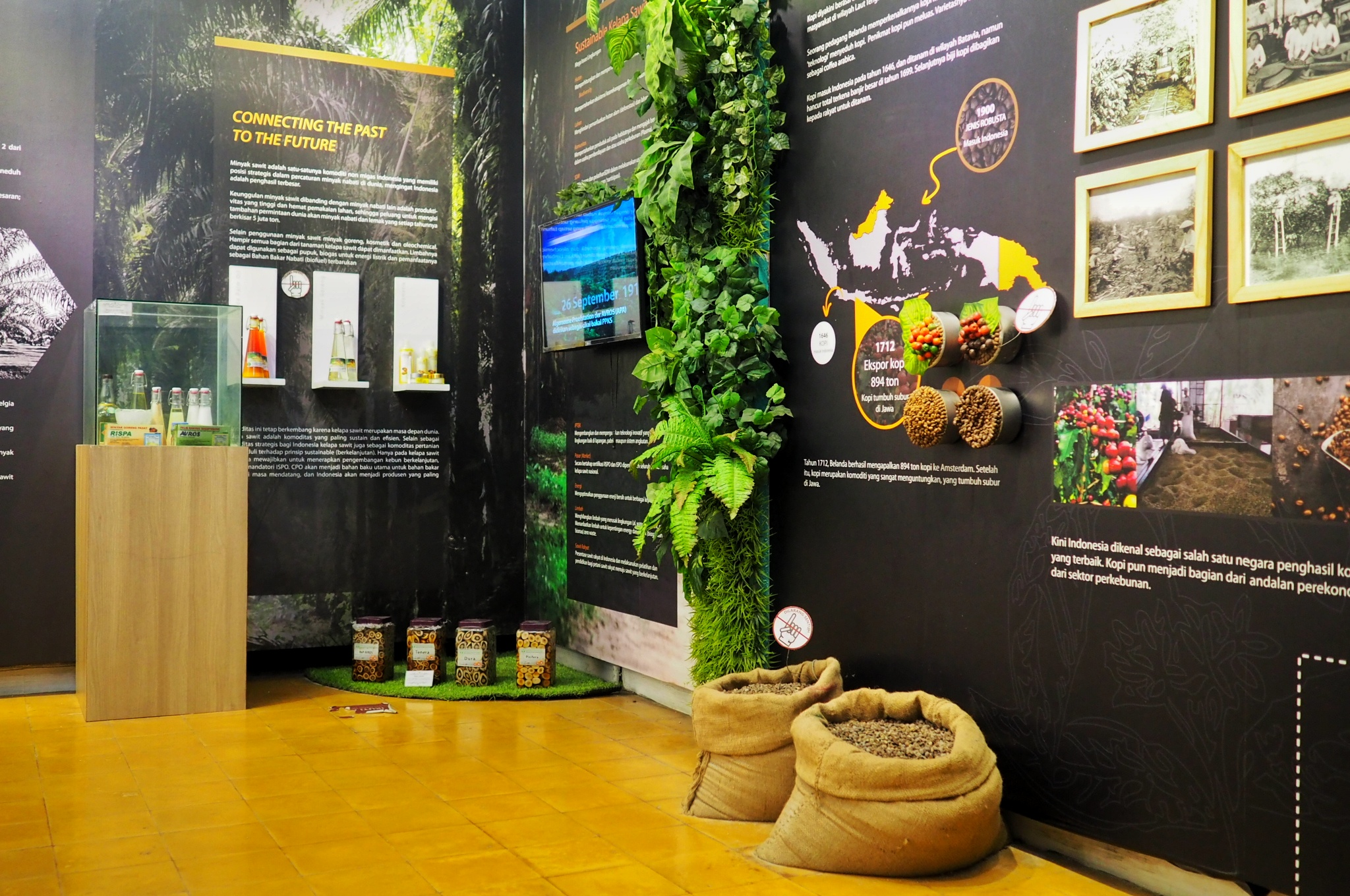 The view inside The Plantation Museum of Indonesia